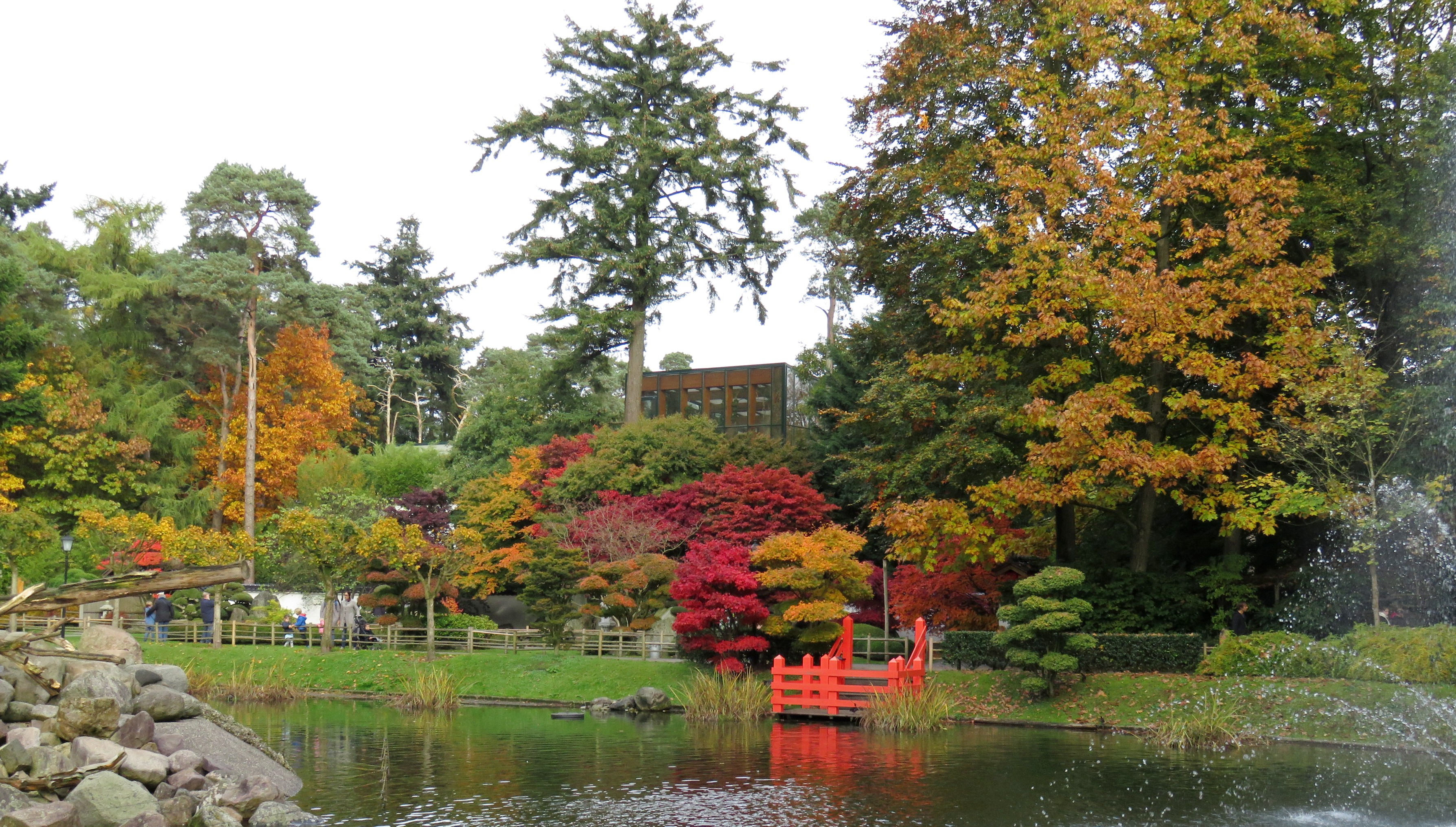 Japanese garden in the autumn in the Zoo in Amersfoort (NL)